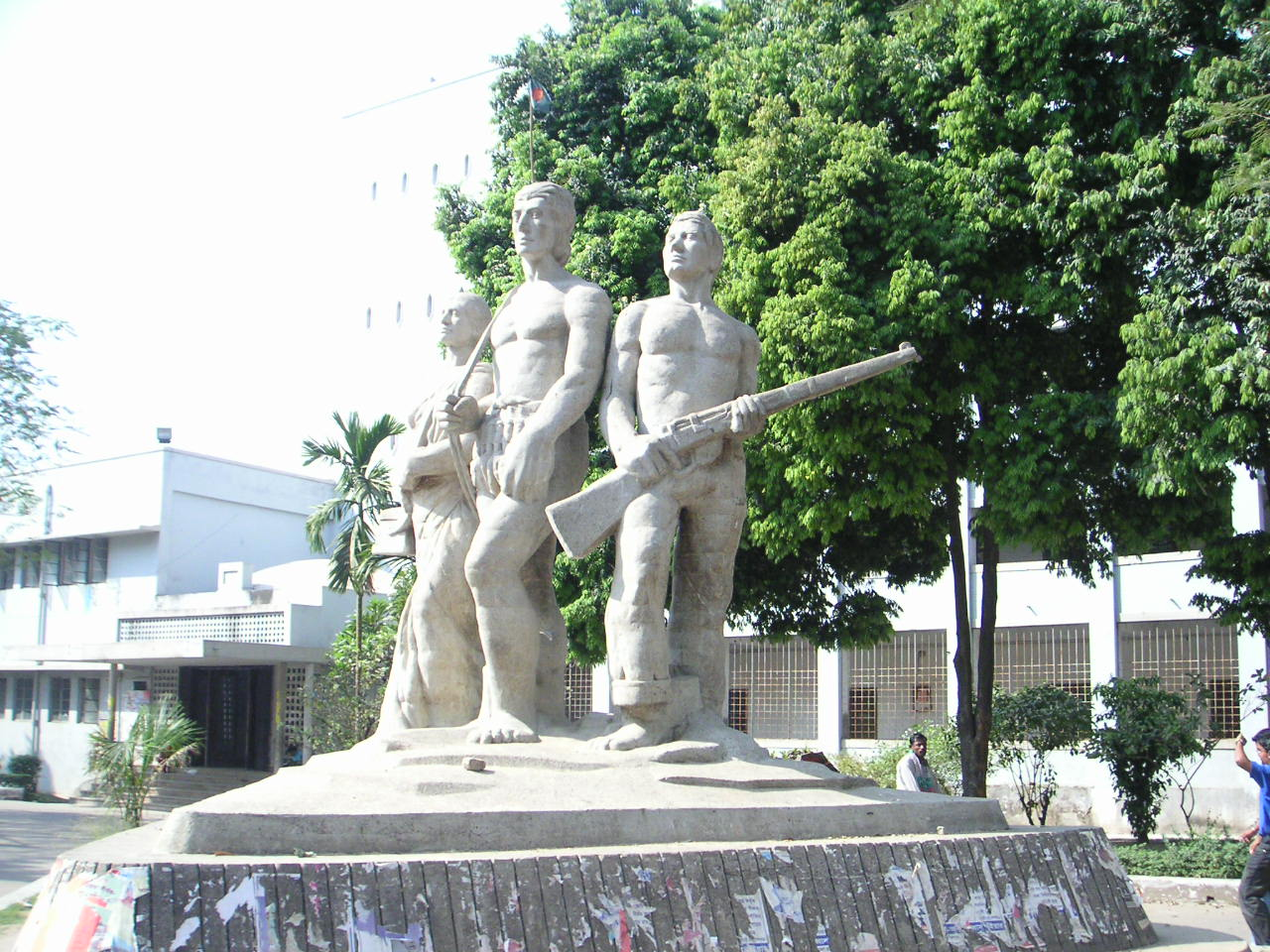 Category: Sculpture; Sculptor: Sayeed Abdullah Khaled; Location: In front of Dhaka University's Arts Faculty